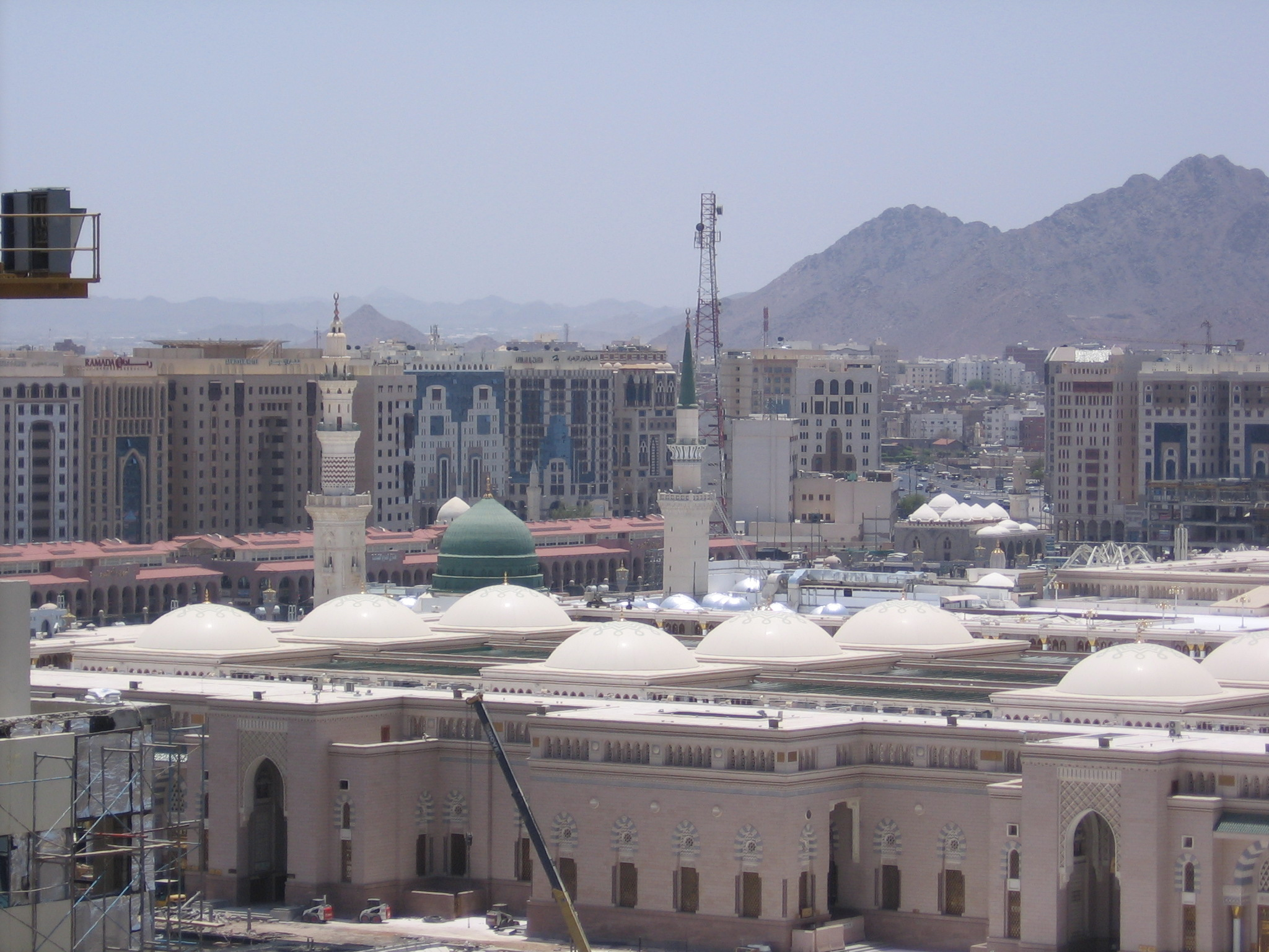 View from the east, looking towards [Green Dome] with Minaret of as-Salam Gate in the background, Al-Masjid al-Nabawi in Medina Saudi Arabia